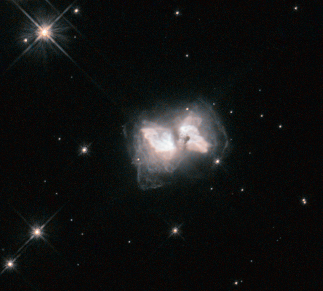 They say the flap of a butterfly's wings can set off a tornado on the other side of the world. But what happens when a butterfly flaps its wings in the depths of space? This cosmic butterfly is a nebula known as AFGL 4104, or Roberts 22. Caused by a star that is nearing the end of its life and has shrugged off its outer layers, the nebula emerges as a cosmic chrysalis to produce this striking sight. Studies of the lobes of Roberts 22 have shown an amazingly complex structure, with countless intersecting loops and filaments. A butterfly's life span is counted in weeks; although on a much longer timescale, this stage of life for Roberts 22 is also transient. It is currently a preplanetary nebula, a short-lived phase that begins once a dying star has pushed much of the material in its outer layers into space, and ends once this stellar remnant becomes hot enough to ionise the surrounding gas clouds and make them glow. About 400 years ago, the star at the centre of Roberts 22 shed its outer shells, which raced outwards to form this butterfly. The central star will soon be hot enough to ionise the surrounding gas, and it will evolve into a fully fledged planetary nebula. Information about the nature, age, and structure of Roberts 22 was presented in a paper using Hubble data back in 1999, published in The Astronomical Journal.